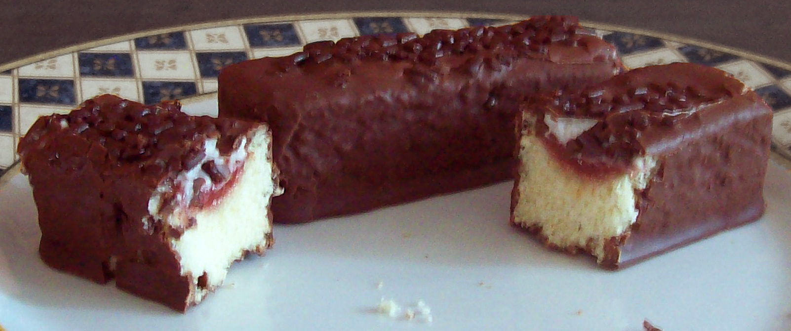 Gansito